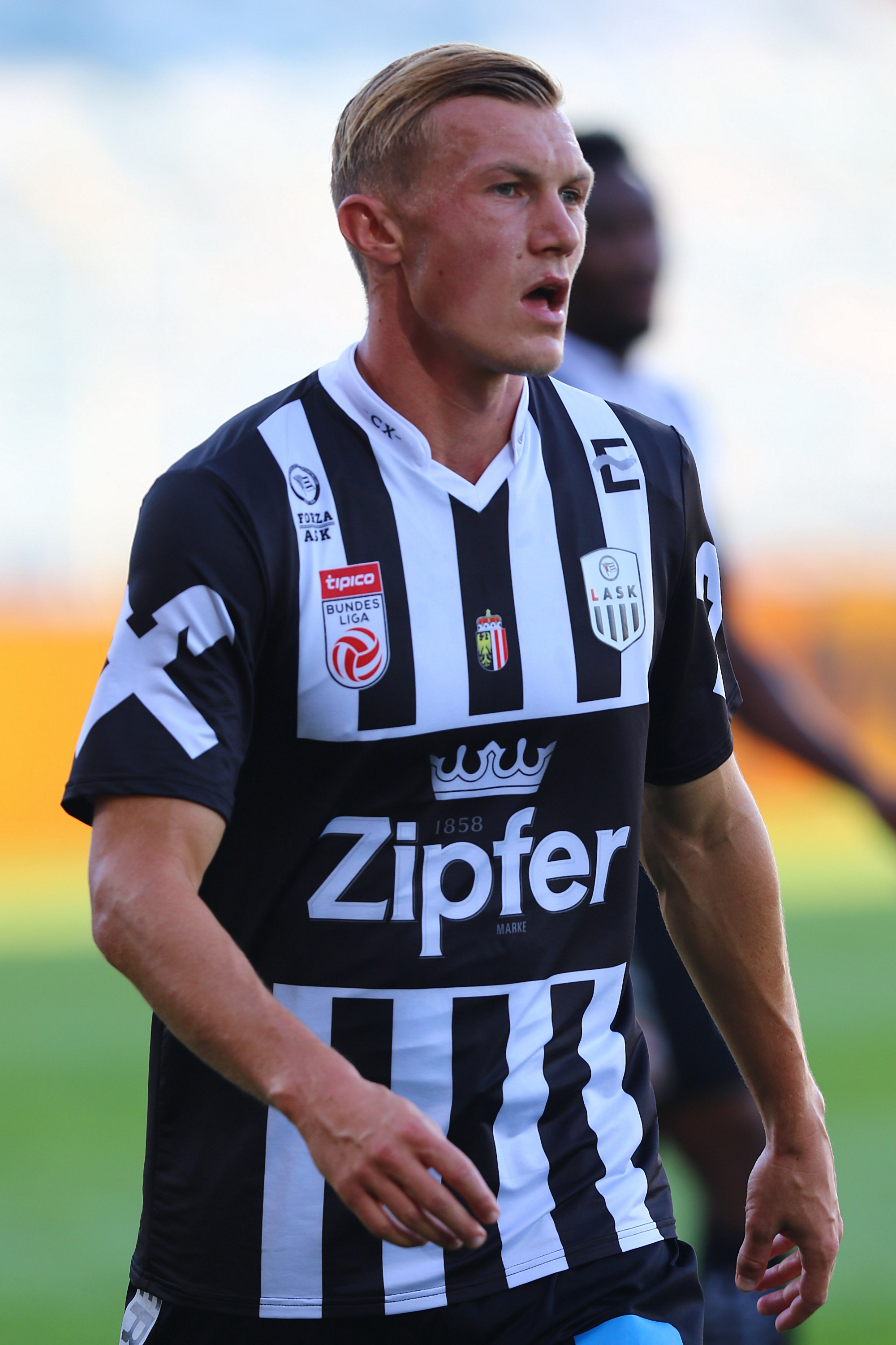 Championshipmatch of the Austrian Bundesliga 2018–19 FC Admira Wacker Mödling (red shirts) vs. LASK Linz (black-white shirts) 0-1 (0-0) at 2018-08-12 in the Bundesstadion Südstadt in Maria Enzersdorf. – The photo shows . Thomas Goiginger